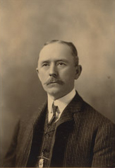 Baseball player and manager Tom Loftus, with the Washington Senators in 1902.